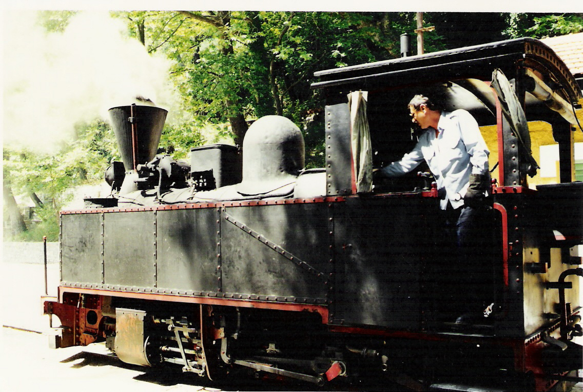 2-4-0 Tubize steam engine (1903) "VOLOS" in Milies station Original Photo John Foss 1990 Zenith SLR camera Kodak film